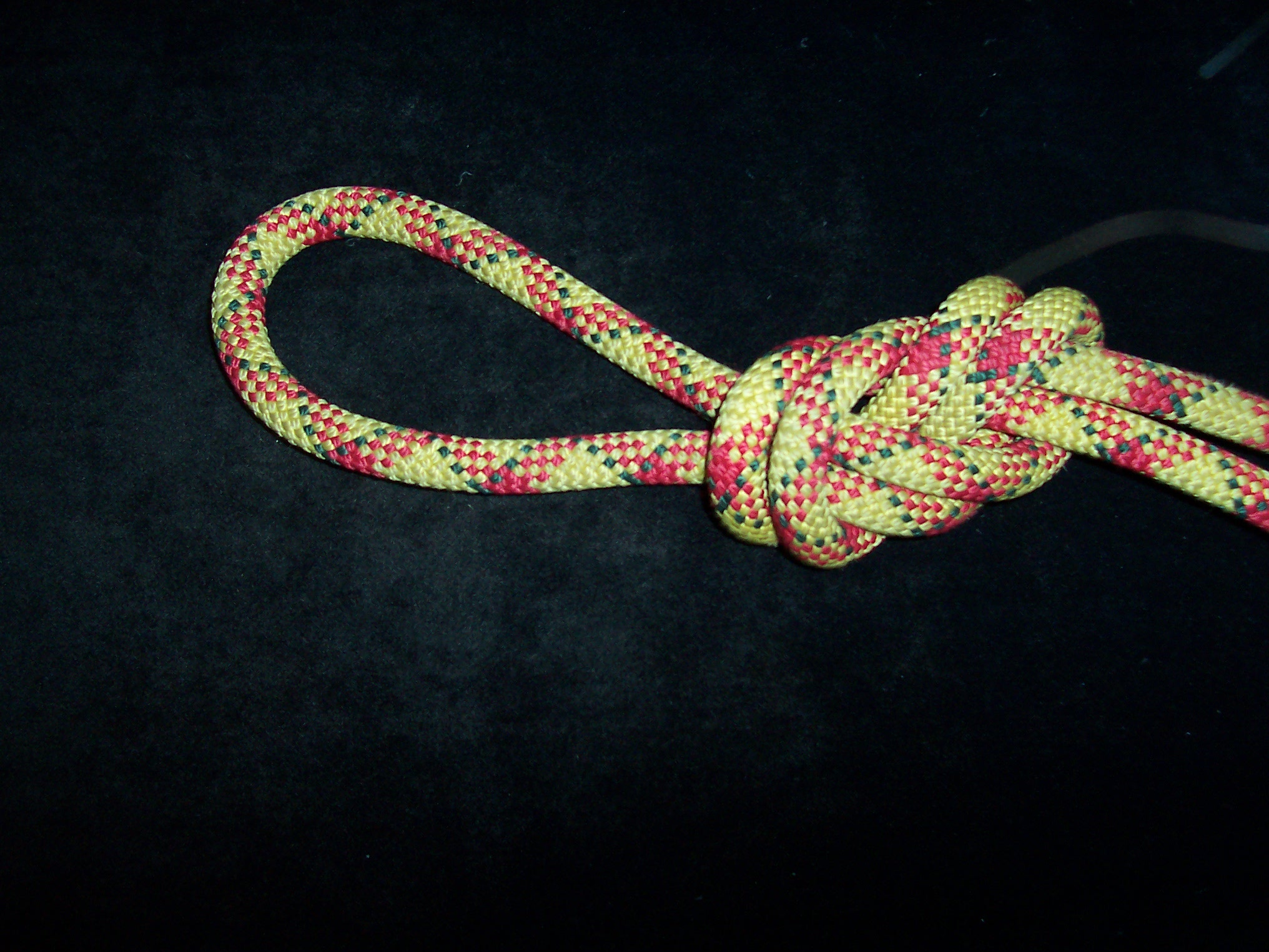 double figure-of-eight